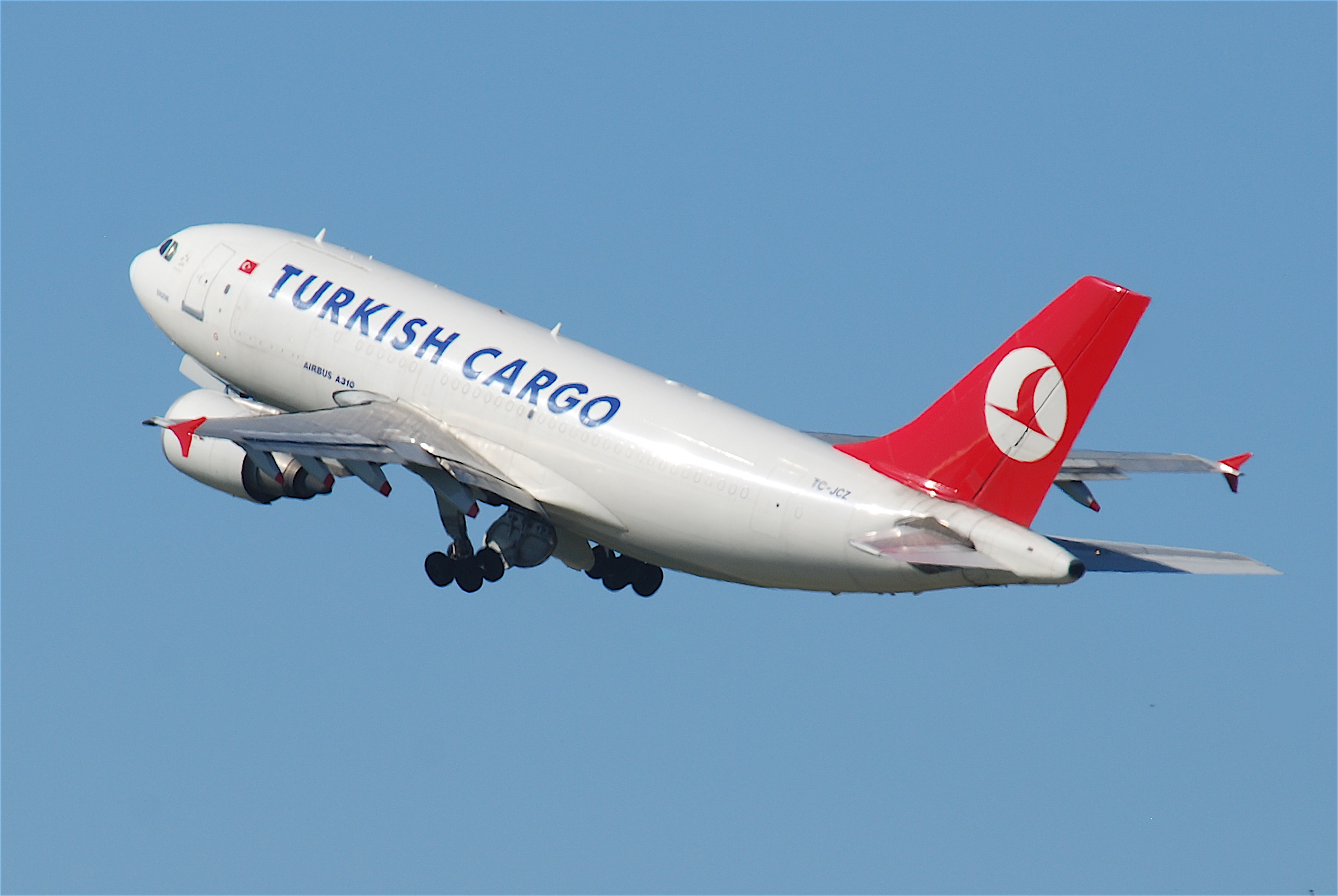 Turkish Airlines Cargo Airbus A310-304F; TC-JCZ@ZRH;09.04.2011/594af